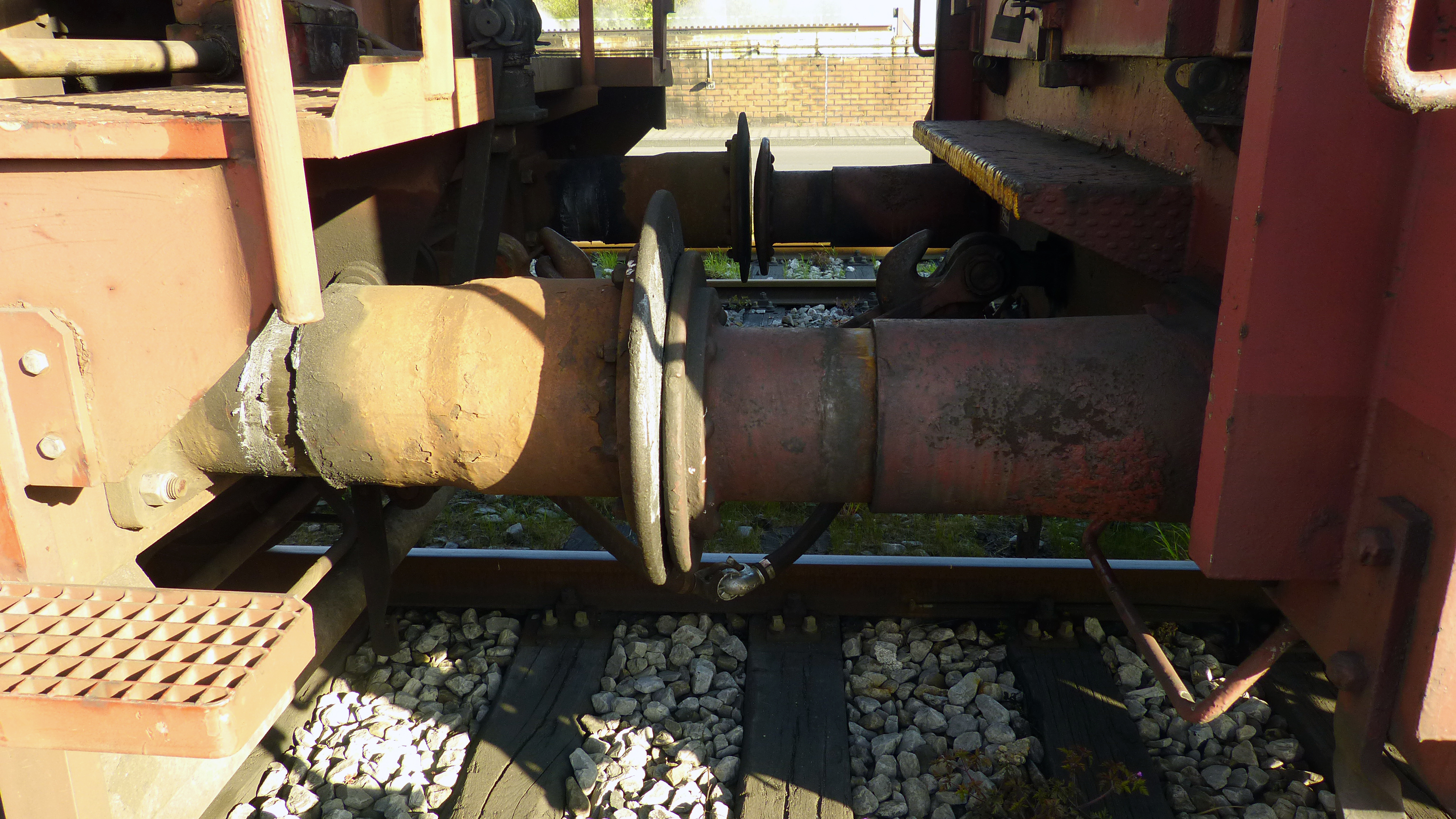 Two types of german rail vehicle buffers. Older standard buffer (right) and high-performance buffer (left).